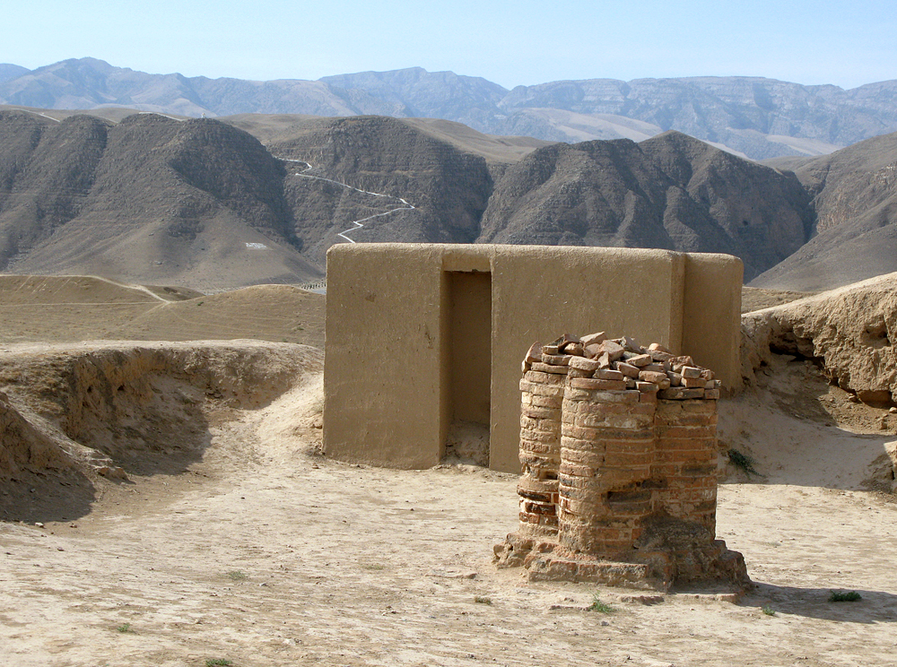 A view of Nisa, an ancient parthian capital, now in Turkmenistan